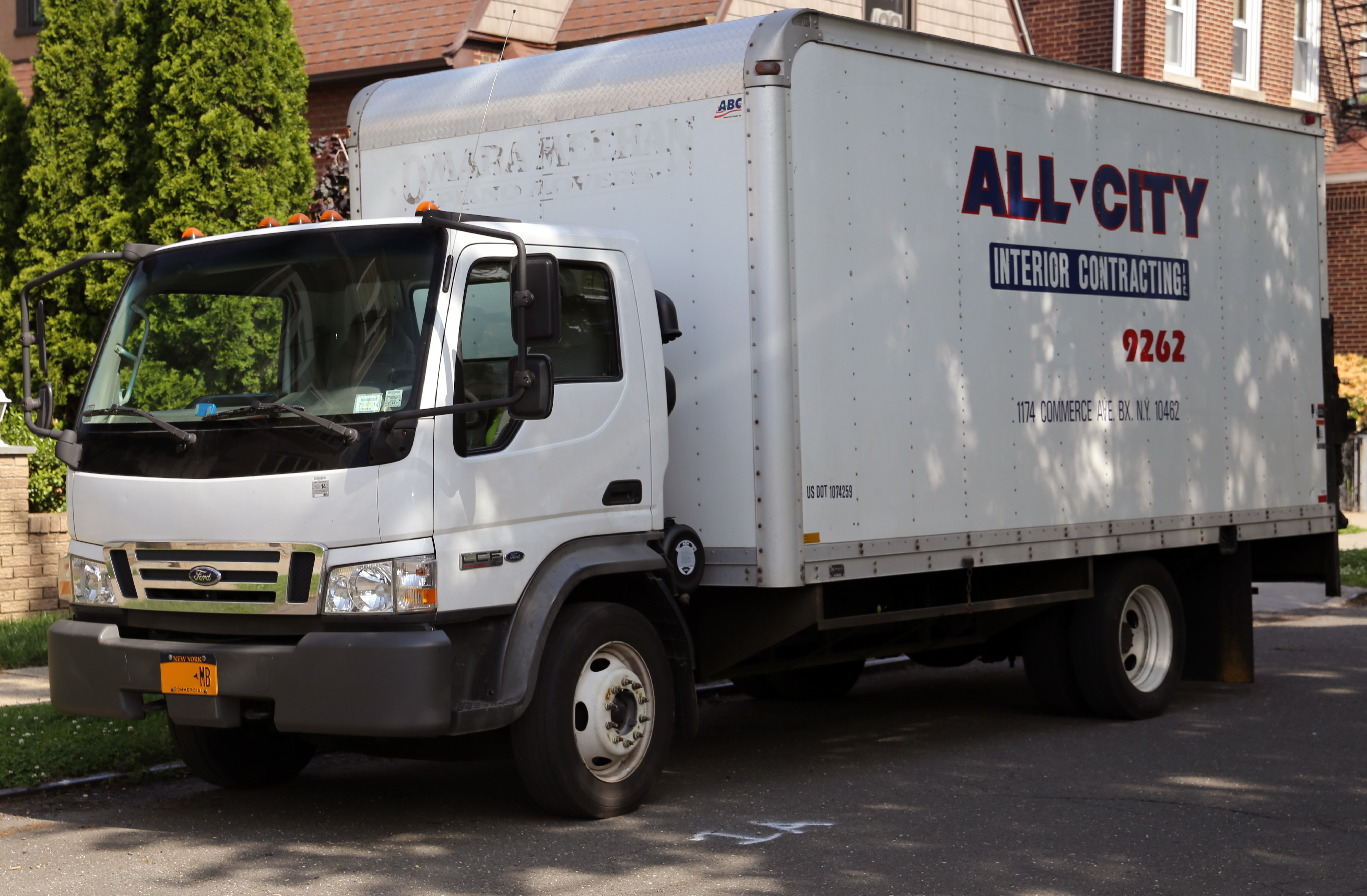 Front left ¾ view of a 2006 Ford LCF. A Class 4 truck, 4x2 layout and the usual 200hp 4.5 litre V6 Powerstroke diesel engine.